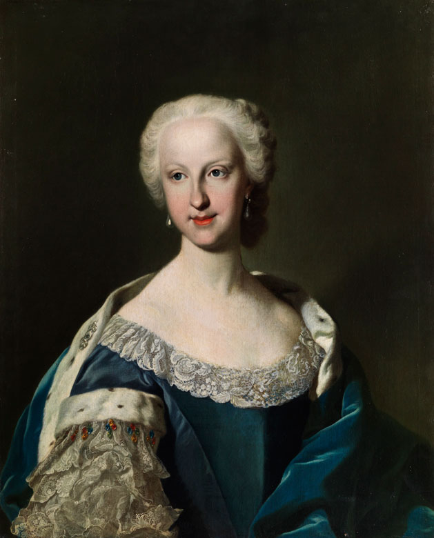 Portrait of Maria Teresa Rafaela of Spain (1726-1746)